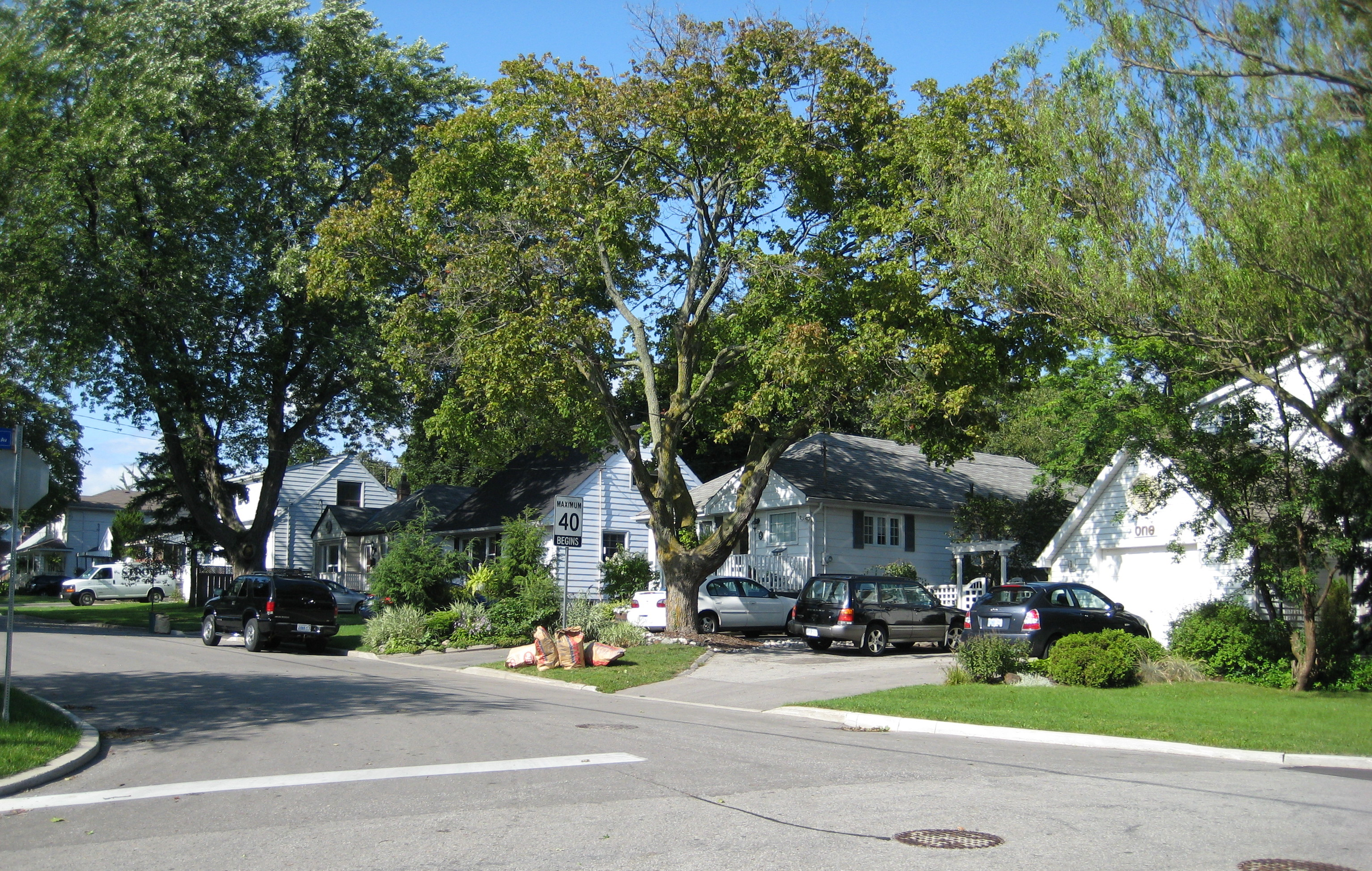 houses in Cliffcrest